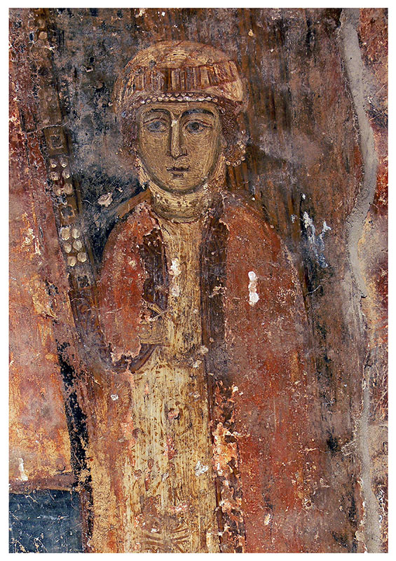 Portrait of the bulgarian queen Irene Komnene from the church Agii Taxiarhes Mitropiliteos in Kastoria, Greece.